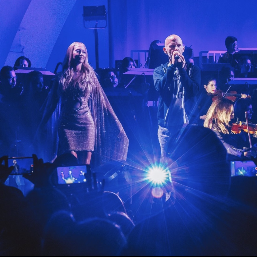 Julie Mintz and Moby performing at the Hollywood Bowl